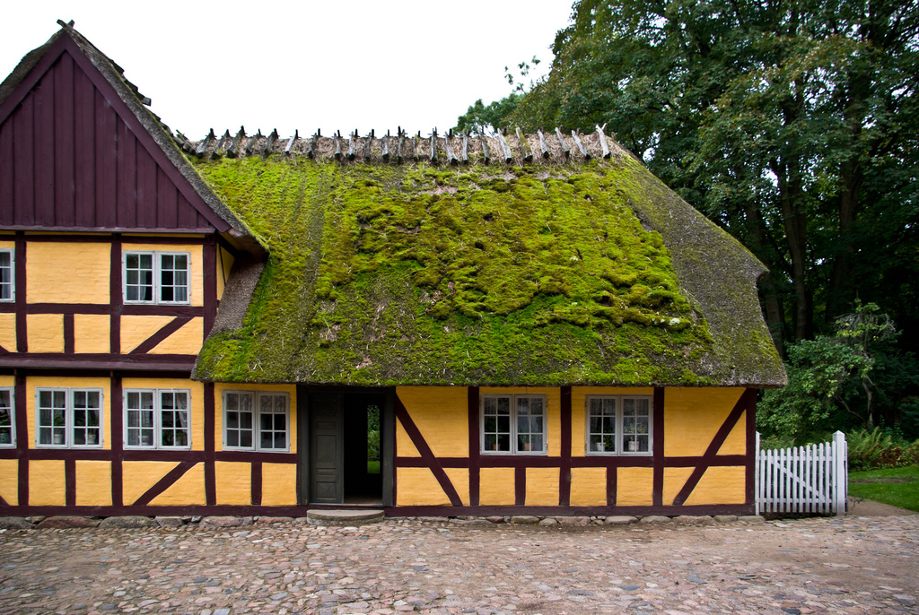 from